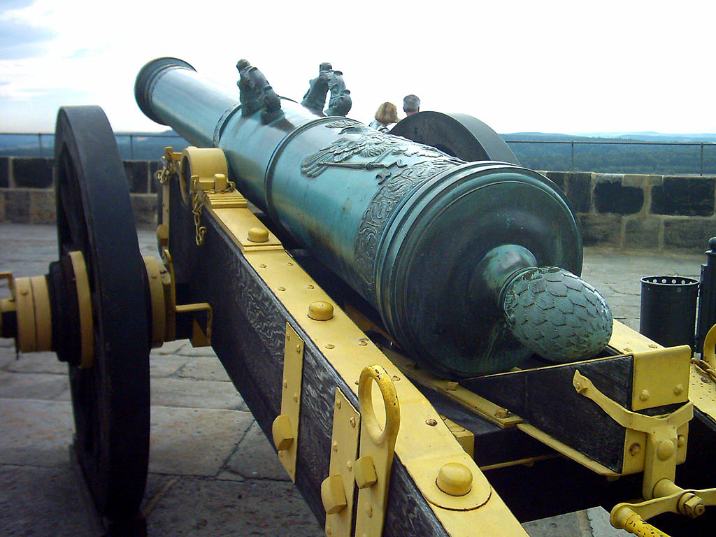 Festung Königstein - muzzle-loader cannon on gun carriage